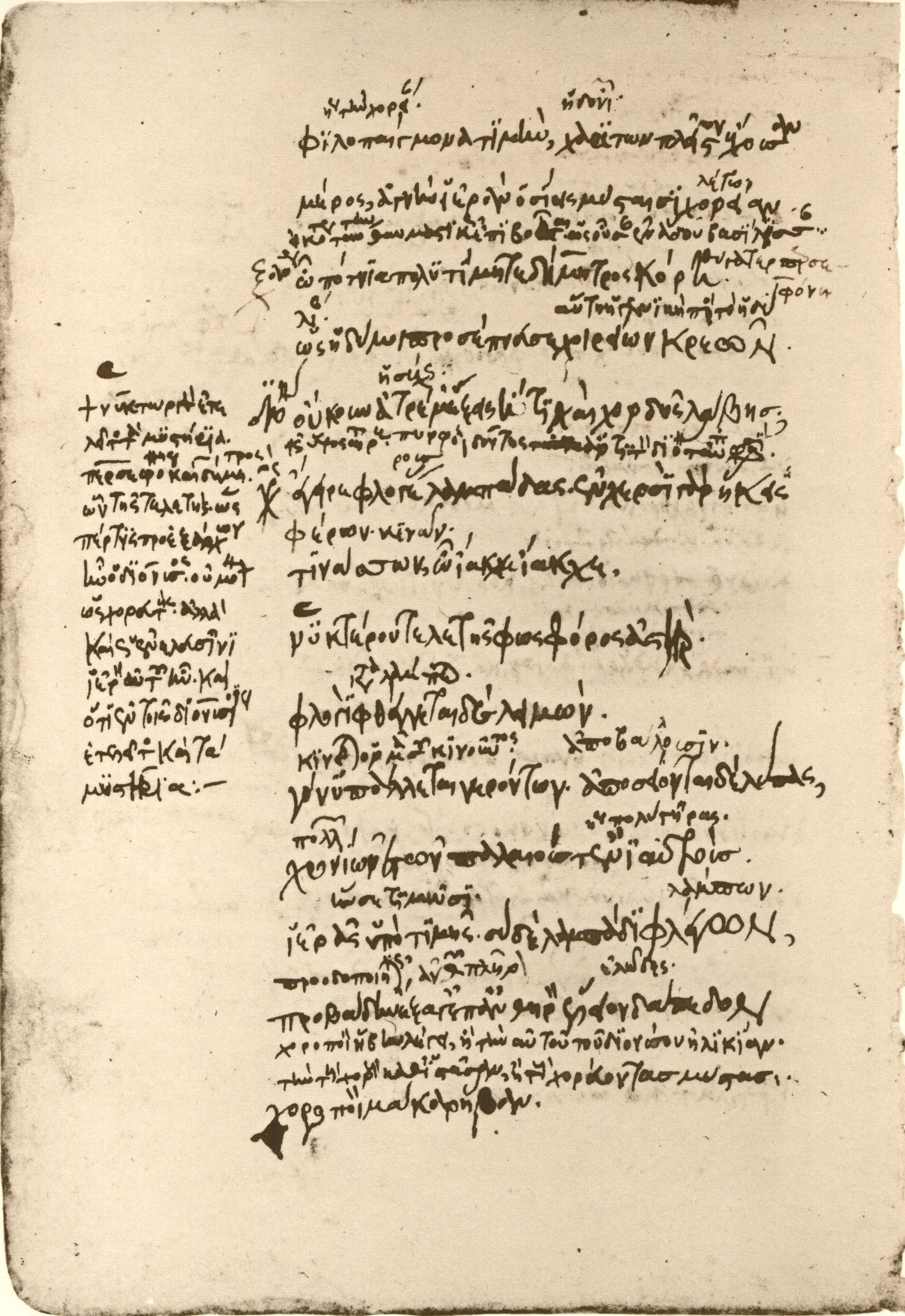 Aristophanes, The Frogs, with scholia, in ms. Biblioteca Apostolica Vaticana, Vaticanus graecus 918, fol. 116v.